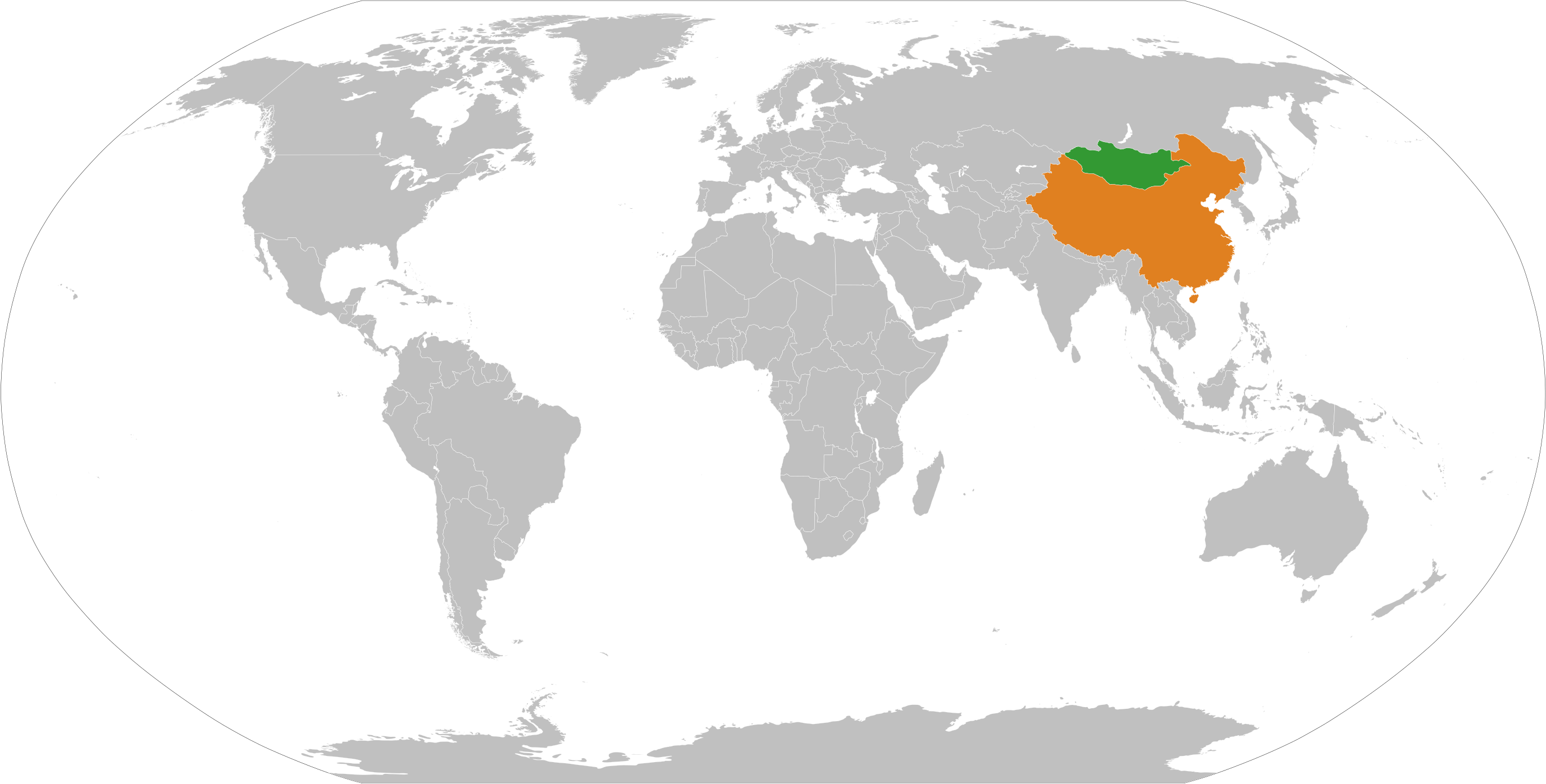 Locator map cropped from Image:BlankMap-World-large.png